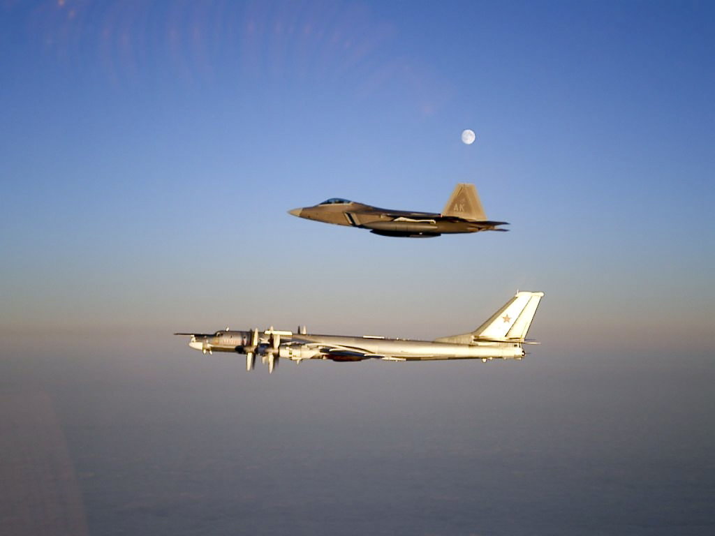 A 90th Fighter Squadron F-22A Raptor escorts a Russian TU-95 Bear flying near the Alaskan NORAD Region airspace Nov. 22, 2007. This marked the first time a Raptor was called upon to support the ANR mission.